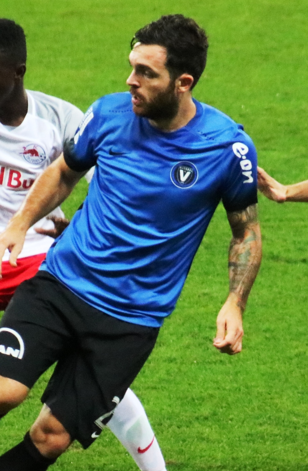 EL play off 2nd leg